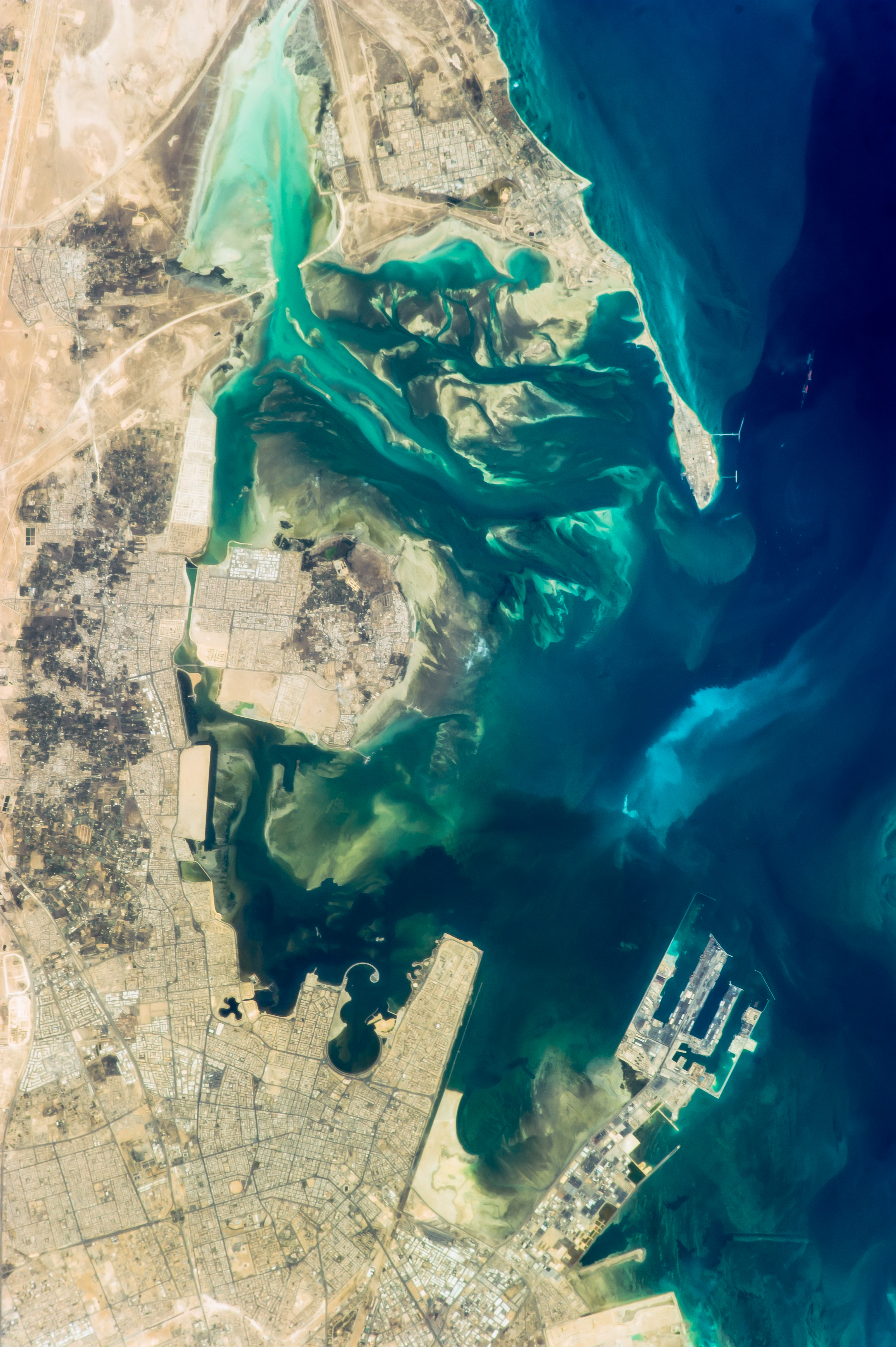 "Tarout Bay, Saudi Arabia, looks powerfully unnatural and purposeful from orbit." Caption by astronaut Chris Hadfield on board the International Space Station. Visible here is Tarout Bay, including northeast Dammam, Saihat, Qatif, Tarout, and Ras Tanura ISS Crew Earth Observations: ISS034-E-053513 Identification Mission ISS034 (Expedition 34) Roll E Frame 053513 Country or Geographic Name SAUDI ARABIA Camera Camera Focal Length 400 mm Camera NIKON D3S Quality Percentage of Cloud Cover 0-10% Nadir What is Nadir? Date 2013-02-24 Time 08:23:08